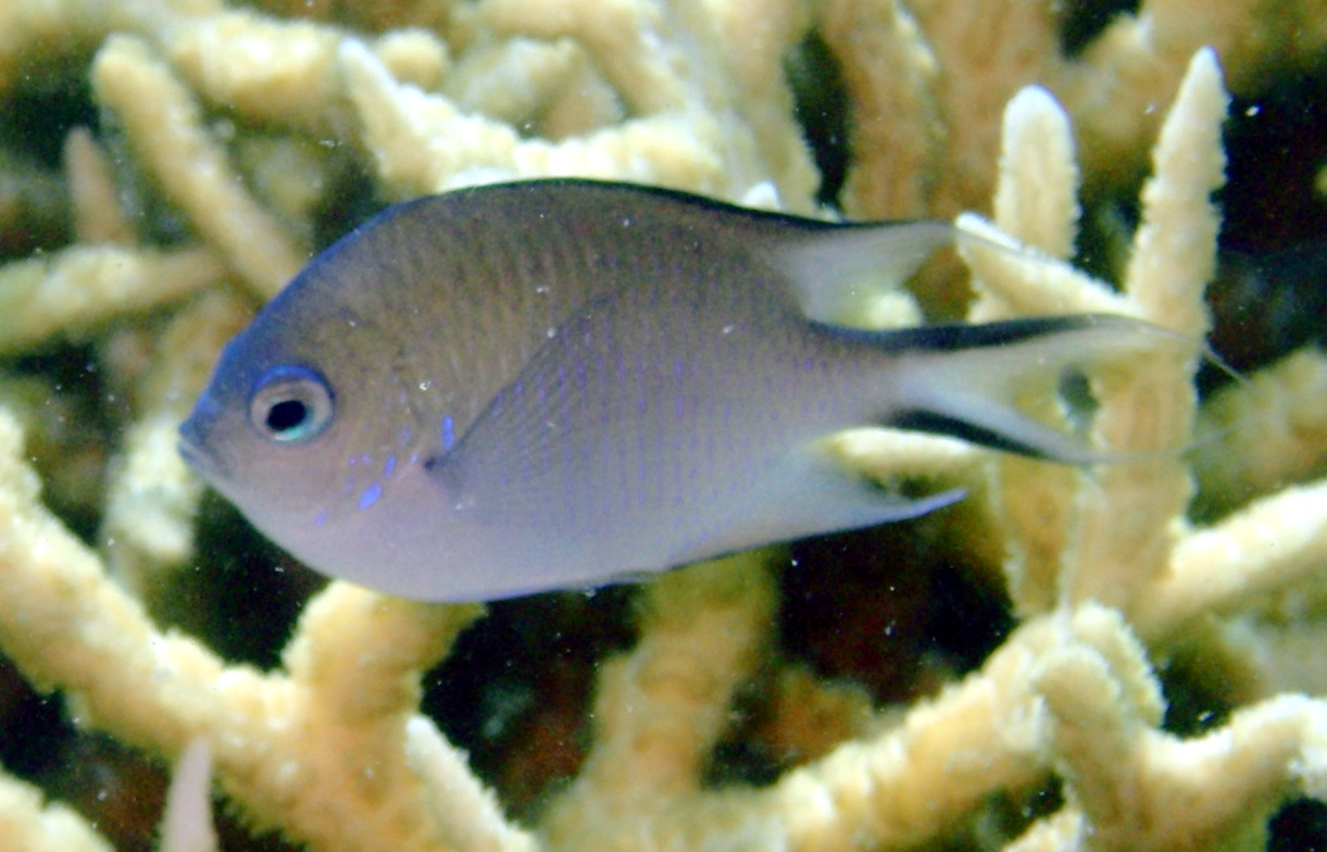 Altrichthys azurelineatus, Coron Island, Palawan, Philippines